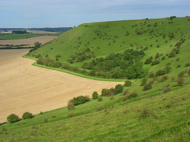 Whitesheet Hill, Mere, Wiltshire, England